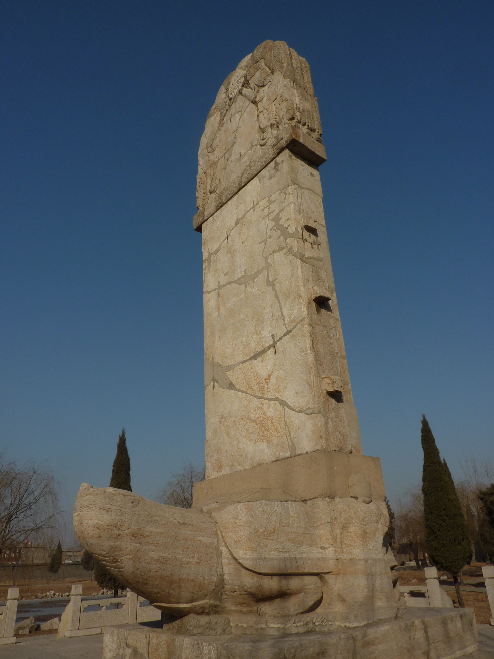 The Shou Qiu site - the two giant turtle-borne steles on the eastern and western side of a small lake. As almost all turtles of these kind, the two turtles look to the south. The western stele is known as "Qing Shou Stele", the eastern stele, as the "Wan Ren Chou Stele"